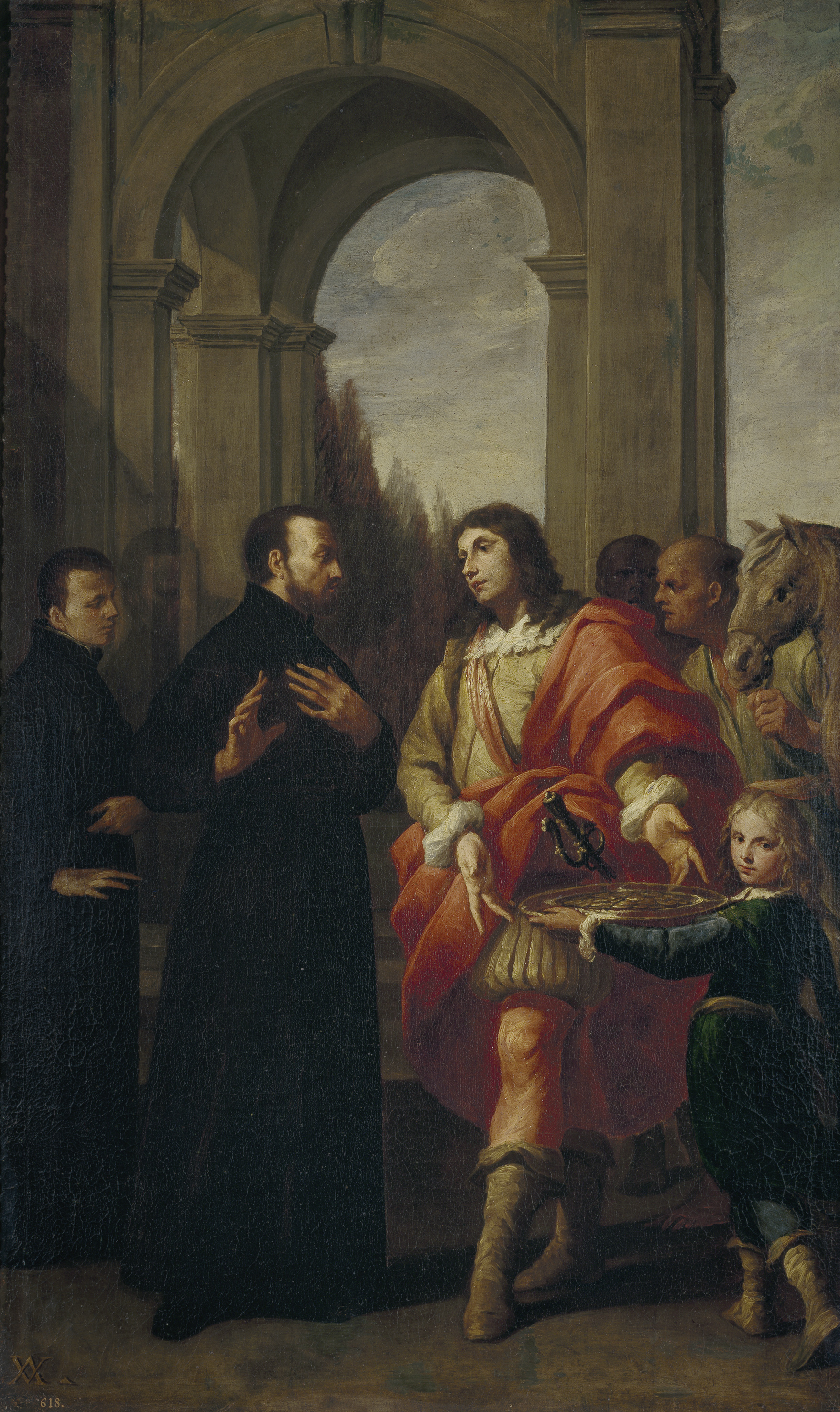 with gestures Saint Gaetano refuses a platter of coins offered to him